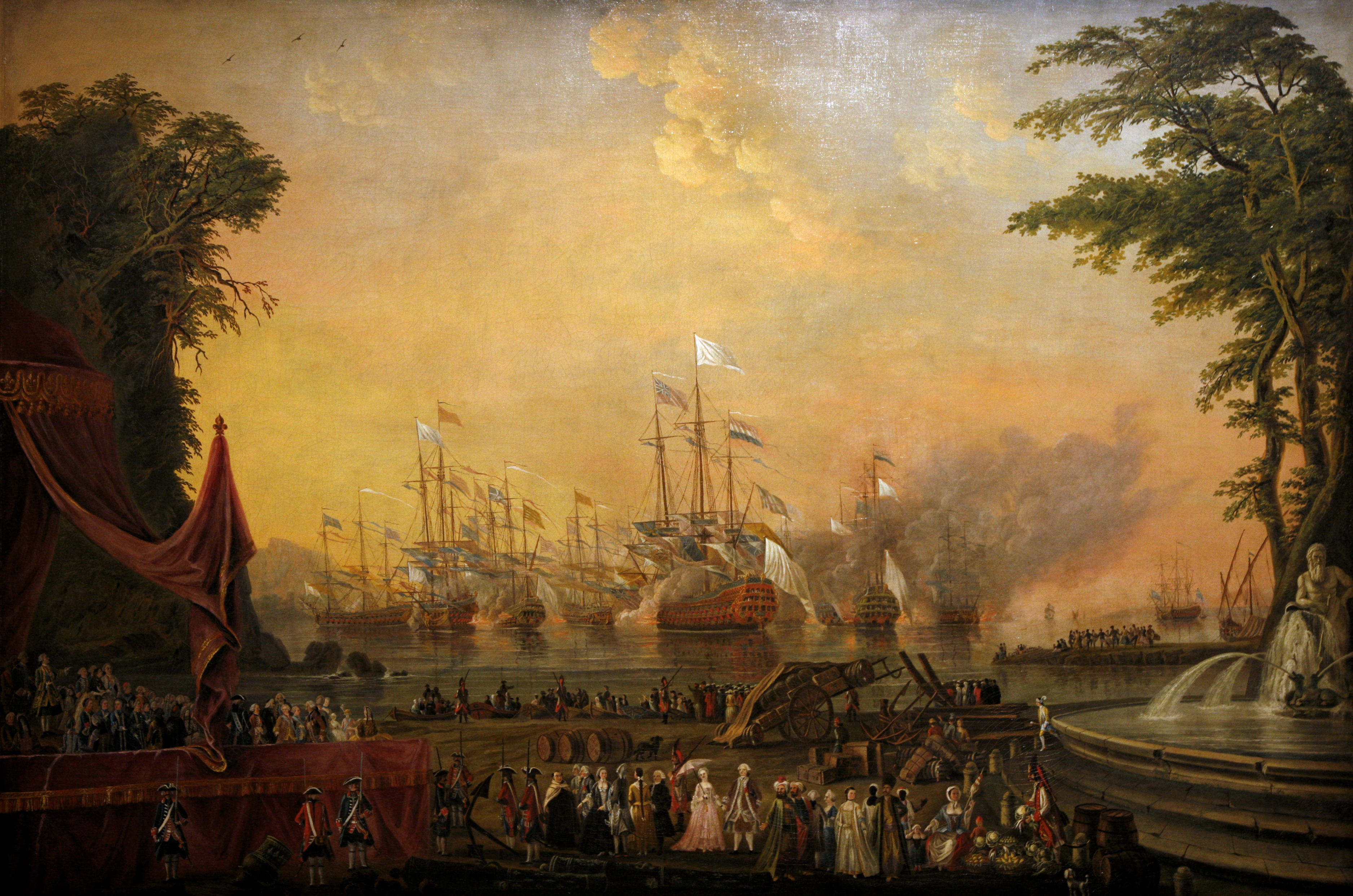 Painting made in July 1777 during the visit of the Count of Provence (brother of King Louis XVI) and the Austrian Emperor Joseph II in Toulon to inspect the arsenal and ships for the war in America.